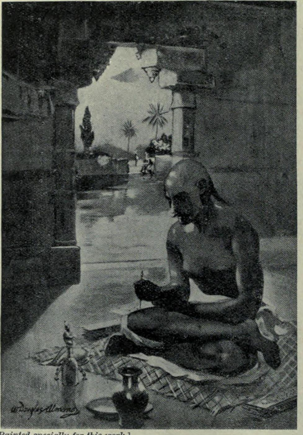 Hutchinson's story of the nations, containing the Egyptians, the Chinese, India, the Babylonian nation, the Hittites, the Assyrians, the Phoenicians and the Carthaginians, the Phrygians, the Lydians, and other nations of Asia Minor.